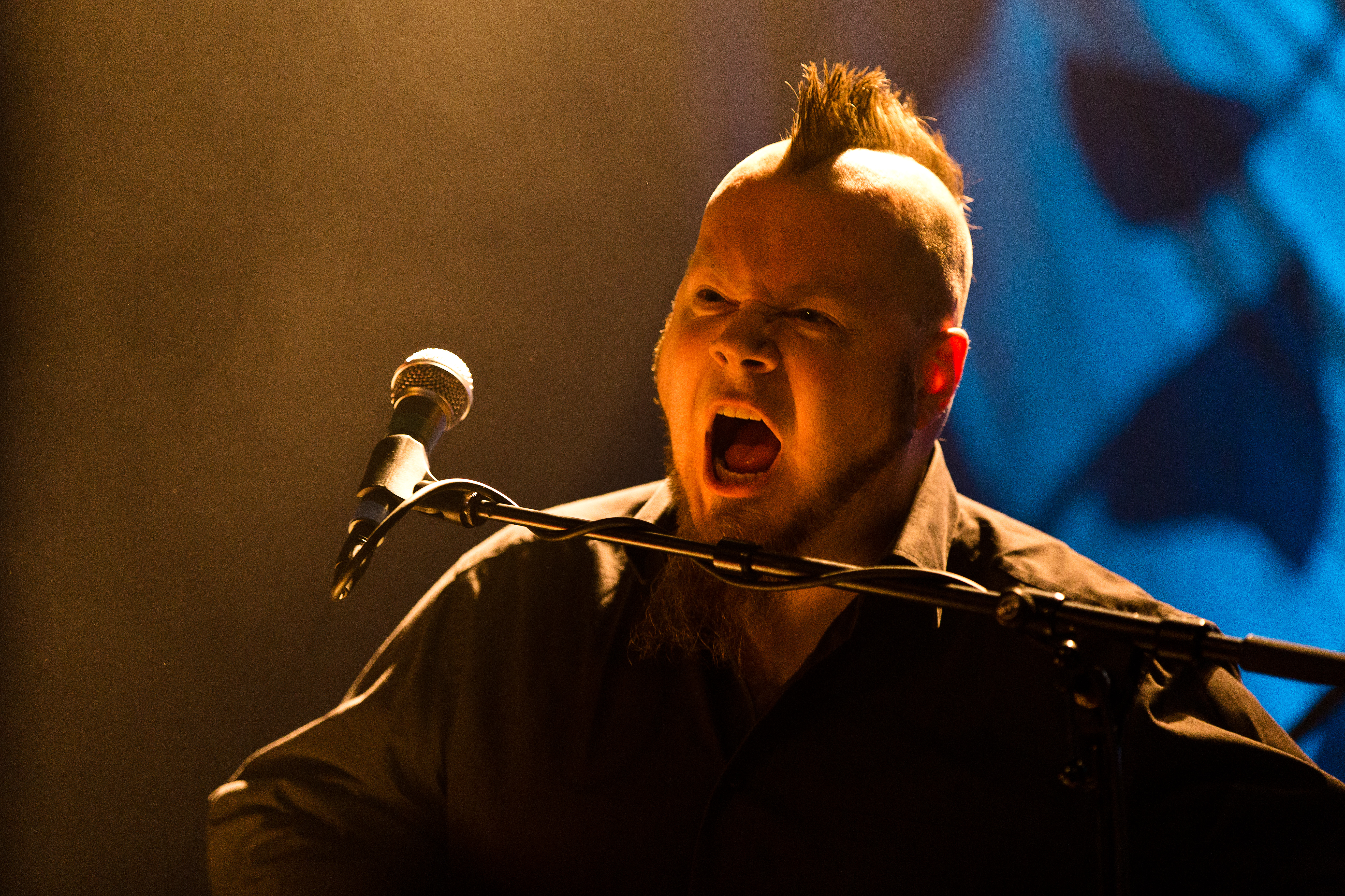 The Icelandic viking metal band Skálmöld at the 25. Wave-Gotik-Treffen 2016 in Leipzig/Germany.